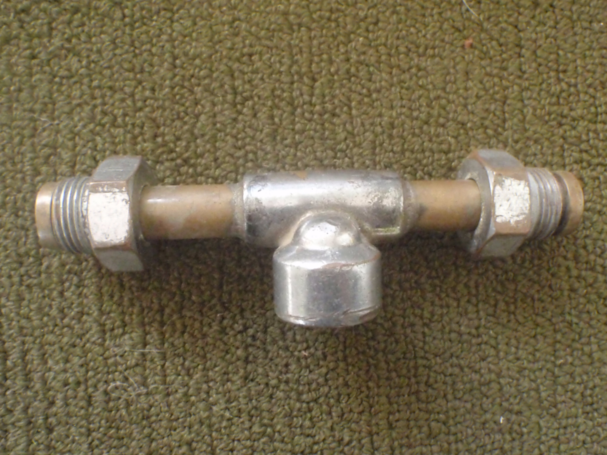 Draeger 200 bar twin cylinder manifold with DIN connections for 170mm diameter cylinders